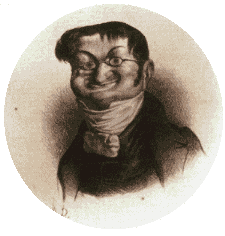 Adolphe Thiers, French politician.